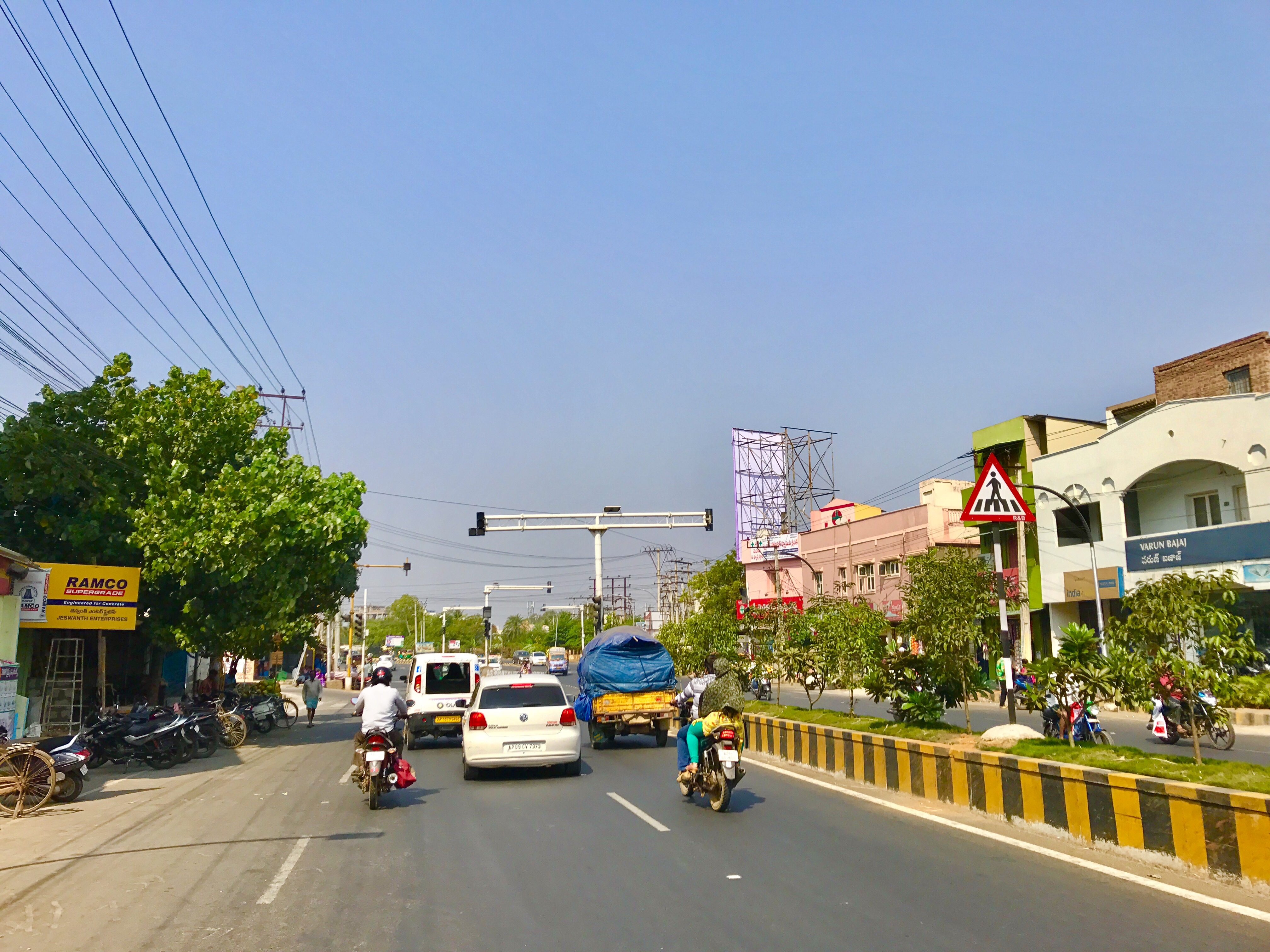 Eluru road in Vijayawada citu